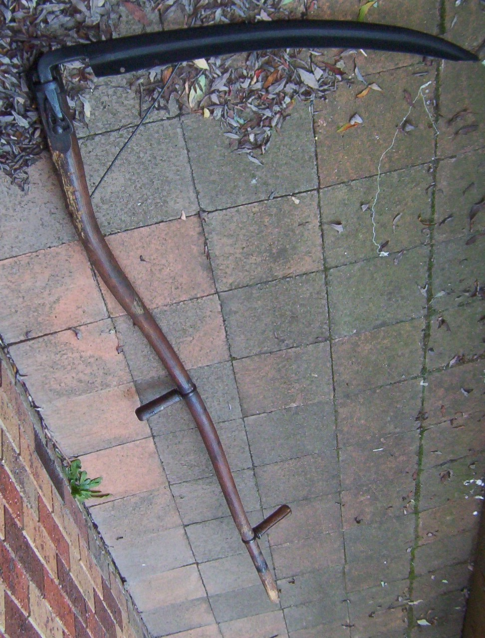 A picture, of a Scythe taken with a digital camera. Taken: 15/8/2006 Taken By: User: Dfrg.msc Uploaded on: 15/8/2006 Uploader: User: Dfrg.msc Feel free to use this image anywhere and in anyway.